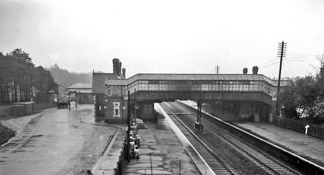 Boscombe Station. View eastward, towards Southampton etc.; ex-LSW London etc. - Southampton - Bournemouth - Weymouth main line. (Photograph taken in the pouring rain).